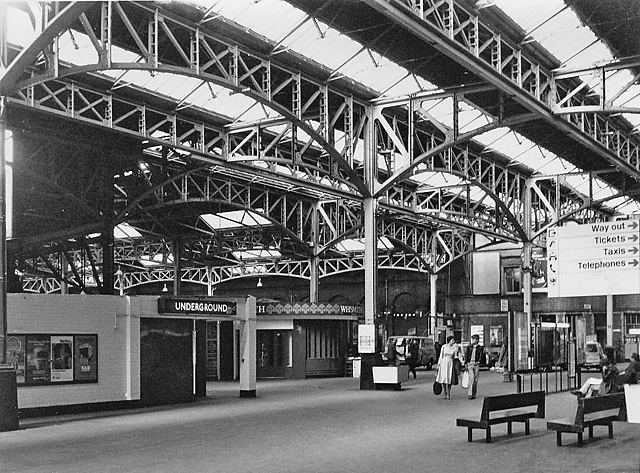 Marylebone Station, concourse. View towards the platforms, also to the entrance to the Underground (Bakerloo Line) station. Marylebone had been the London terminus of the Great Central main line from Sheffield, Nottingham and Leicester, also suburban services from High Wycombe, Aylesbury etc., but 40 years ago when this photograph was taken, it was one of the quietist London termini, as revealed by the lack of people to be seen.